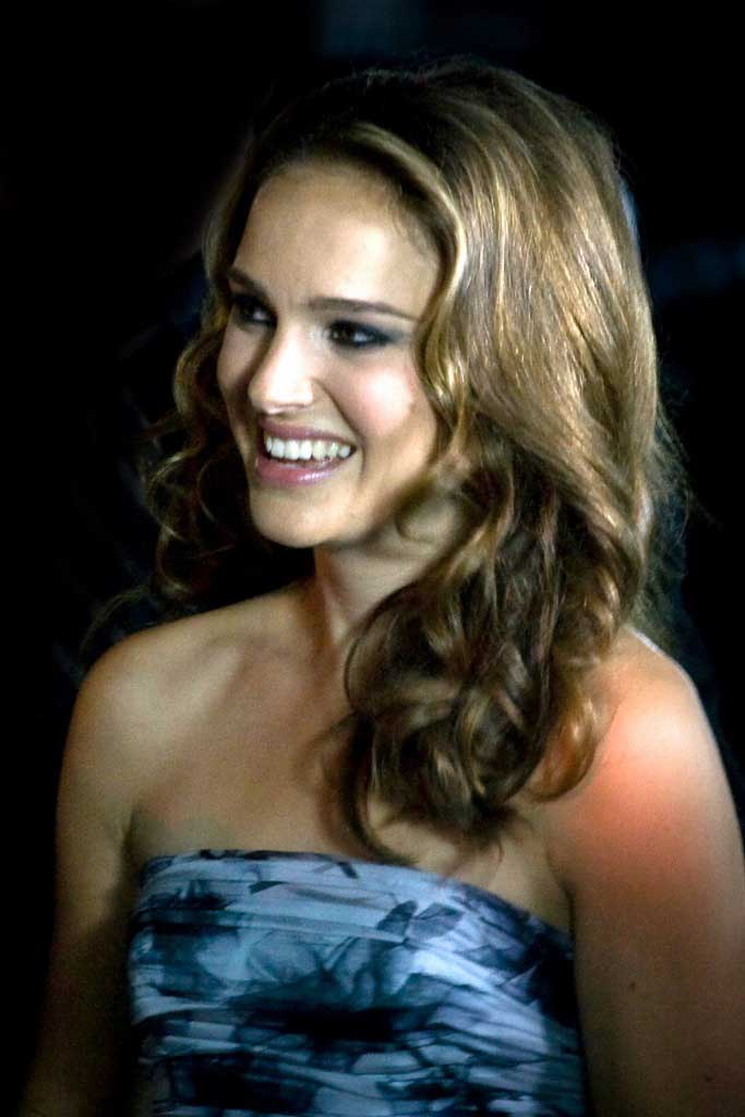 Natalie Portman at the premiere of Black Swan, directed by Darren Aronofsky, during the Toronto International Film Festival, 2010.